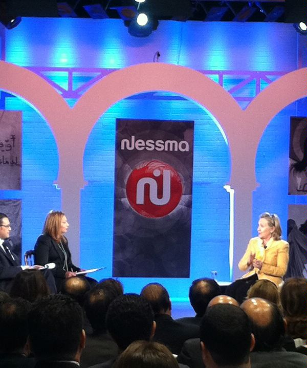 United States Secretary of State Hillary Rodham Clinton's Nessma TV Townterview in Tunis, Tunisia on March 17, 2011. Part of an effort by Secretary Clinton to address and consult with elements of Tunisian civil society on recent events.